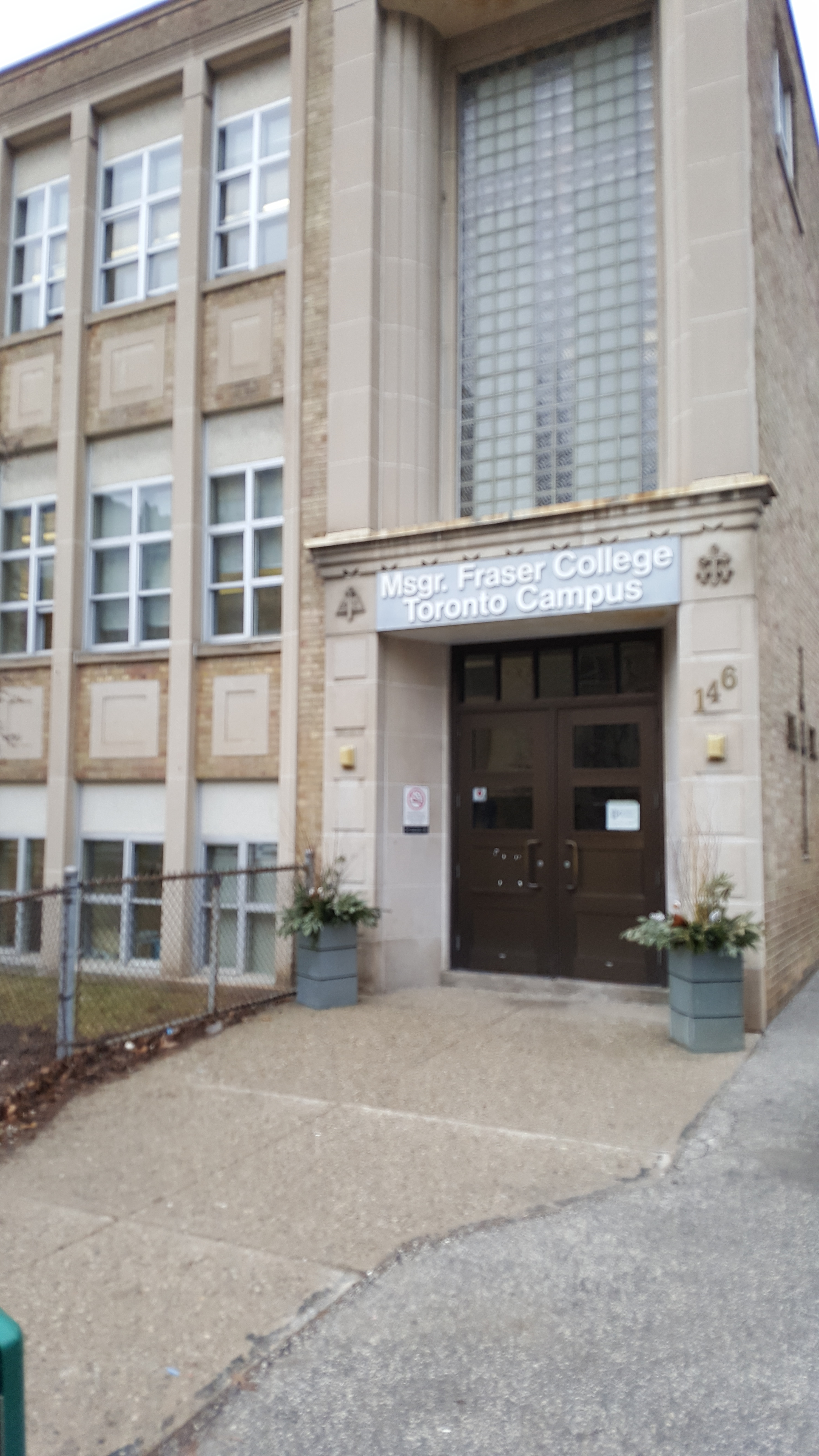 Monsignor Fraser College Isabella campus in Toronto, Ontario, Canada